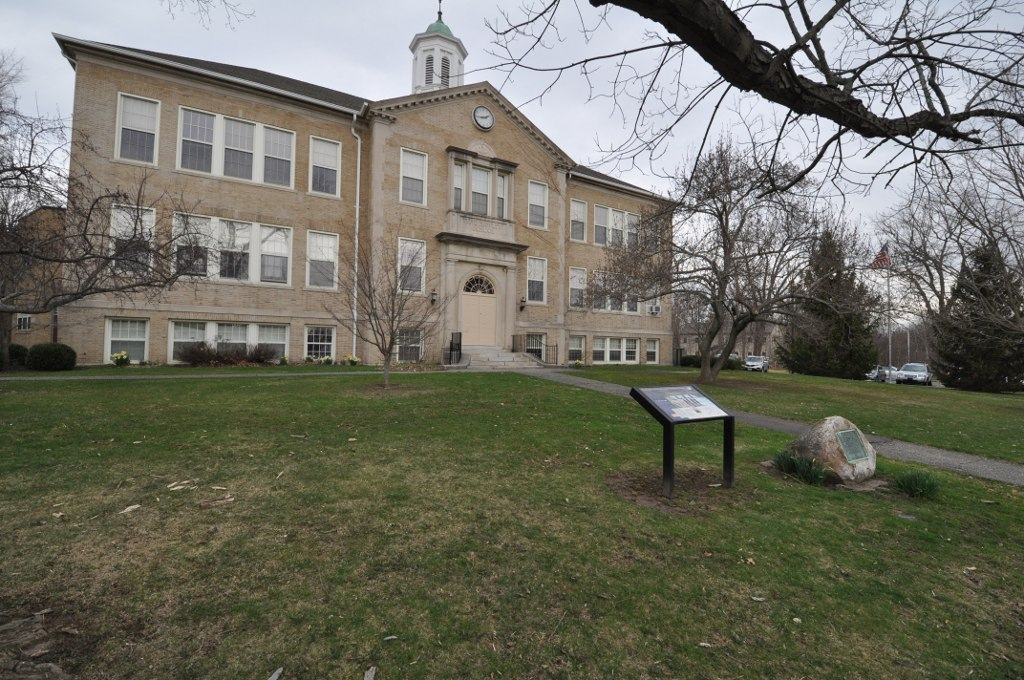 Hawley School in Newtown, CT; near this site of Rochambeau's camps #10 and #41.